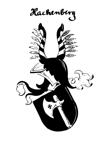 Hackenberg (Adelsgeschlecht), nach Siebmacher